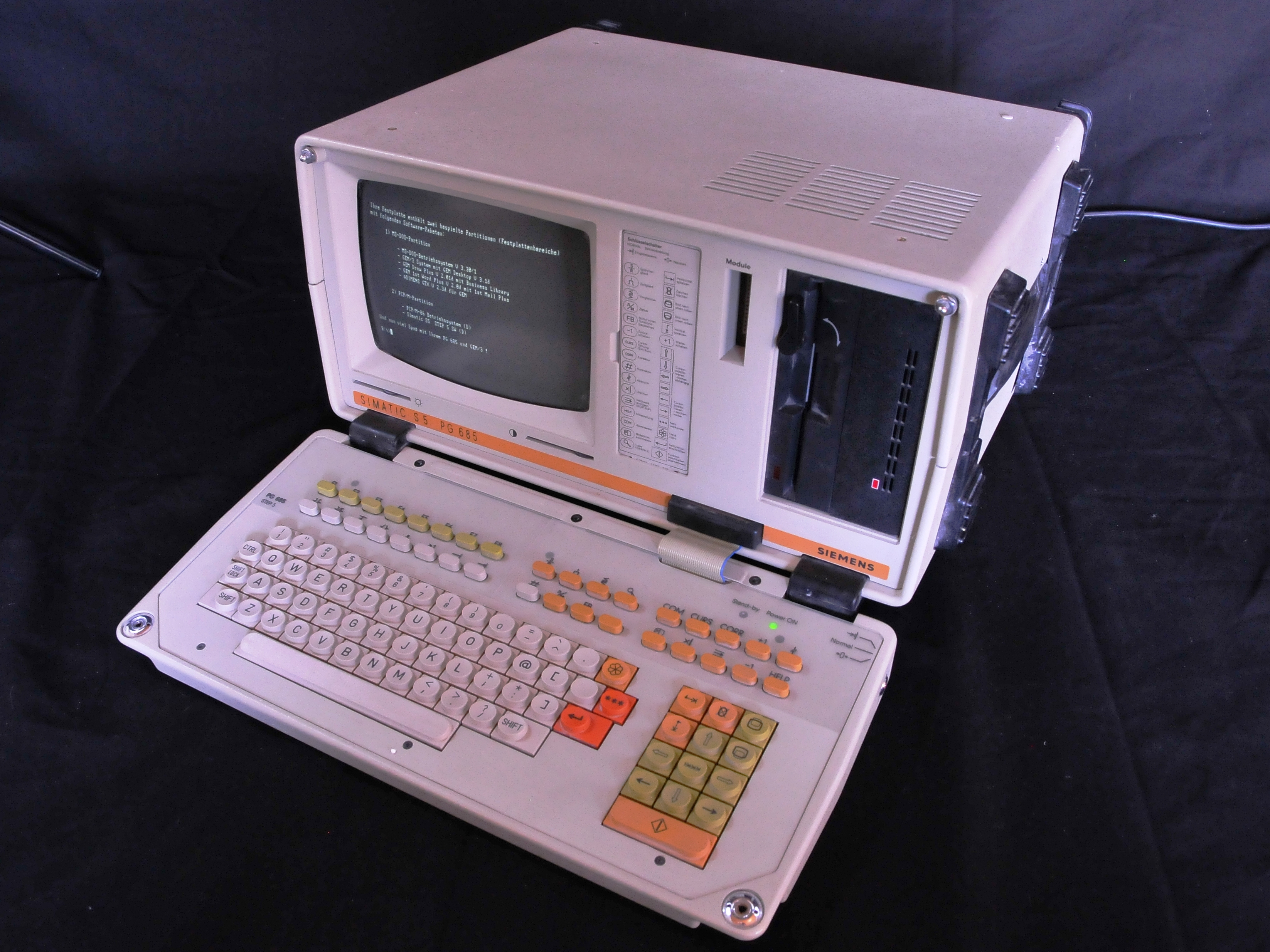 Old programming device for PLC.